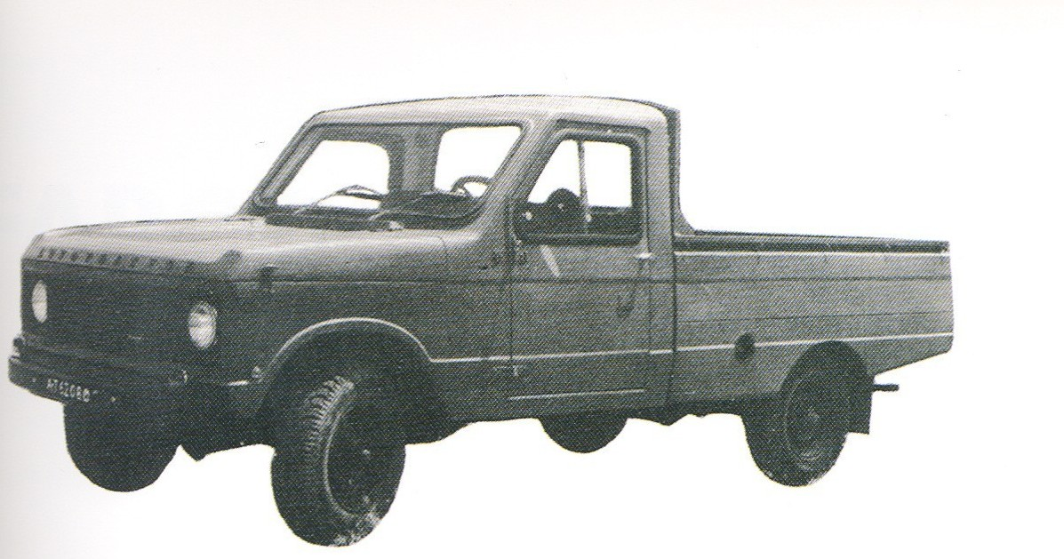 An image of a Balkania Autotractor truck from my book "Made in Greece".